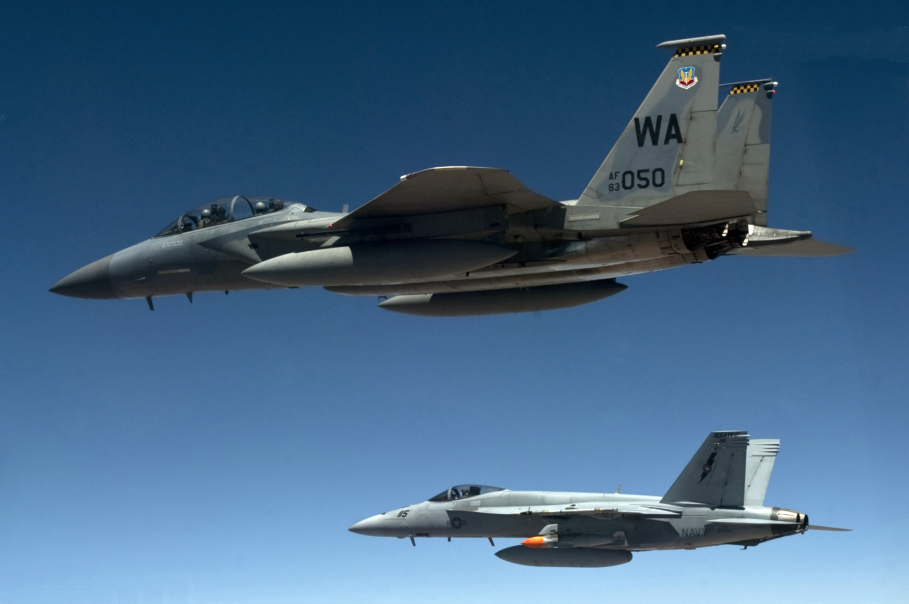 U.S. Air Force McDonnell Douglas F-15D-36-MC Eagle (s/n 83-0050) from the 433rd Weapons School flies next to a U.S. Navy Naval Strike and Air Warfare Center Boeing F/A-18E Super Hornet (BuNo 166804) during exercise "Midway White III" over the Nevada Test and Training Range on 26 June 2012.